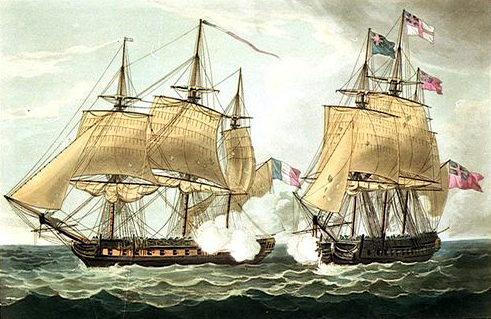 Battle between the frigates Clorinde and HMS Eurotas